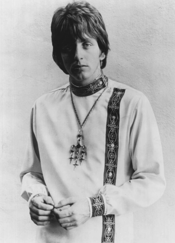 Publicity photo of musician Lee Michaels.